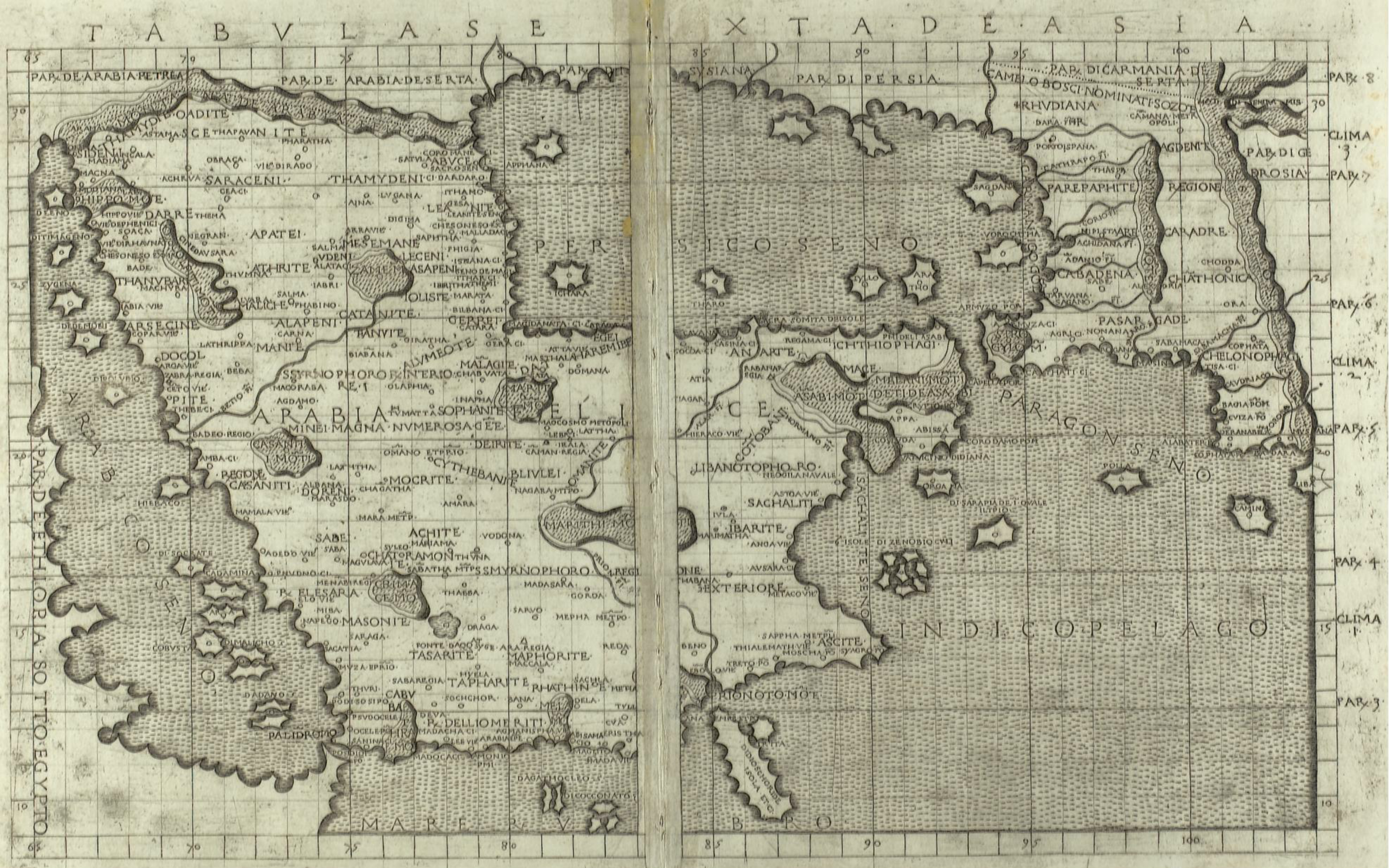 The Sixth Map of Asia (Tabula Sexta de Asia), depicting Arabia Felix (Arabia Felice), from Seven Days of Geography